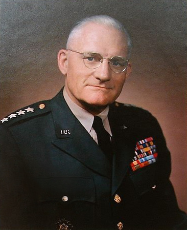 Photograph of US Army general Williston Birkhimer Palmer in uniform.